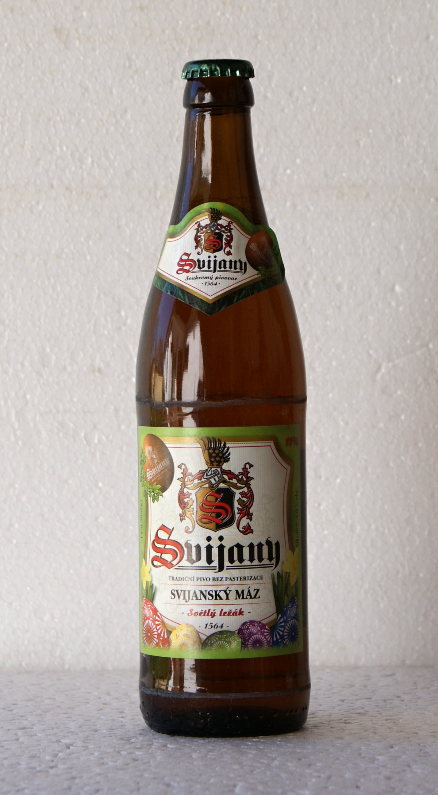 Bottle of the Svijanský Máz lager beer.